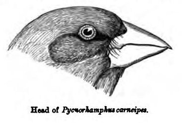 Pycnorhamphus carneipes = White-winged Grosbeak (Mycerobas carnipes)